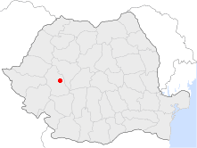 Location of Orăștie in Romania.